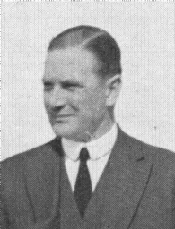 John Butters portrait